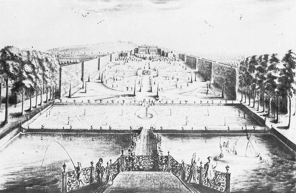 Gardens of the Castle of Herten with the orangery in the background